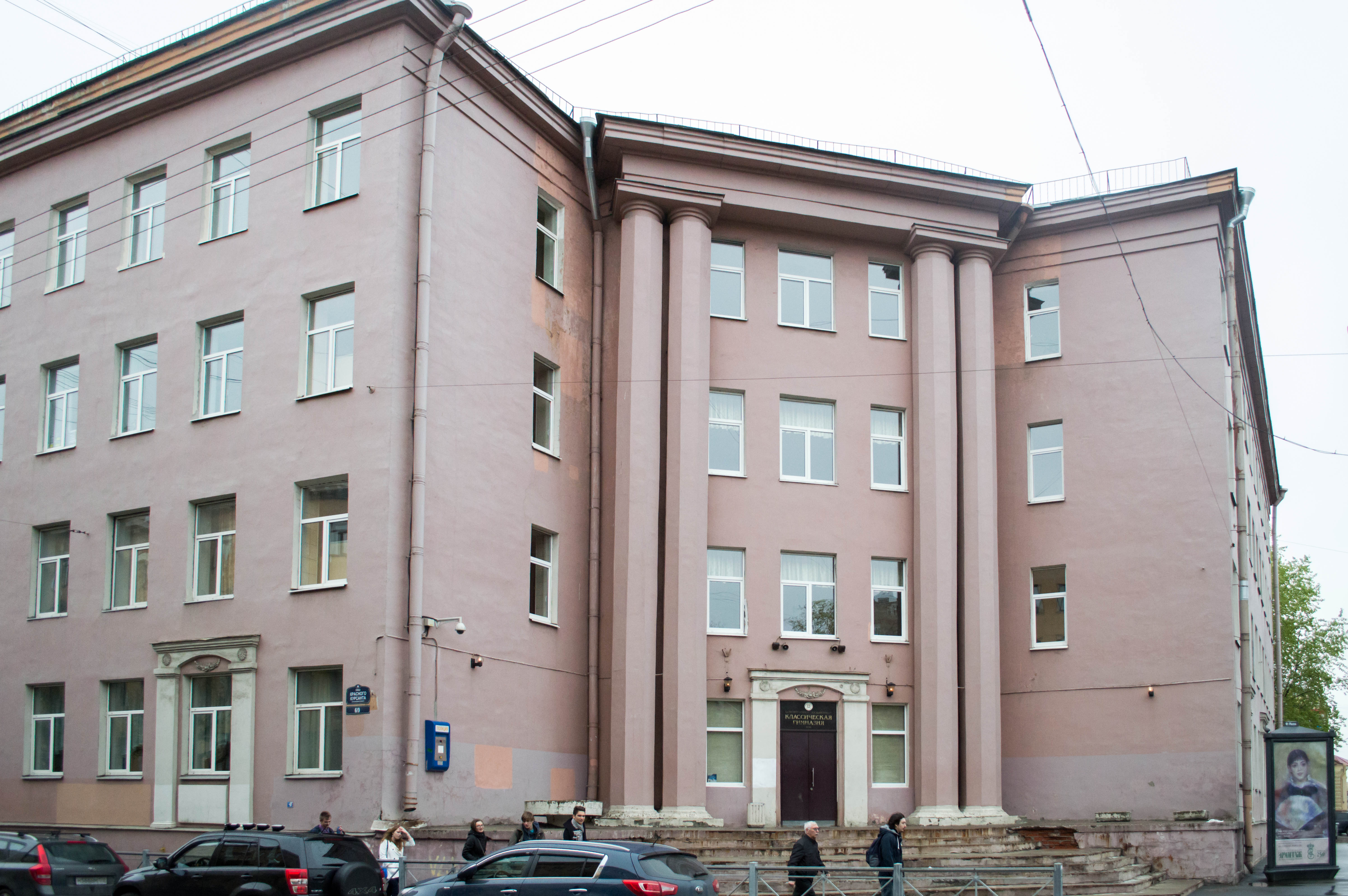 The Classical Gymnasium No. 610 located in the federal city of Saint Petersburg.